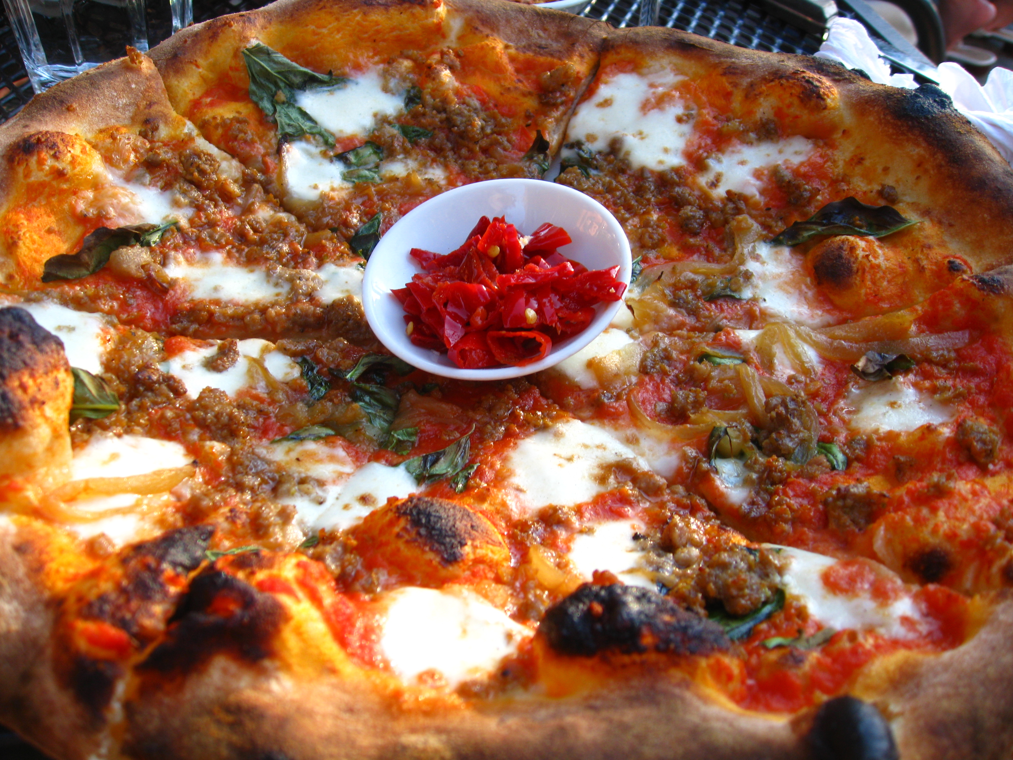 A pizza from Ken's Artisan Pizza in southeast Portland, Oregon, United States.